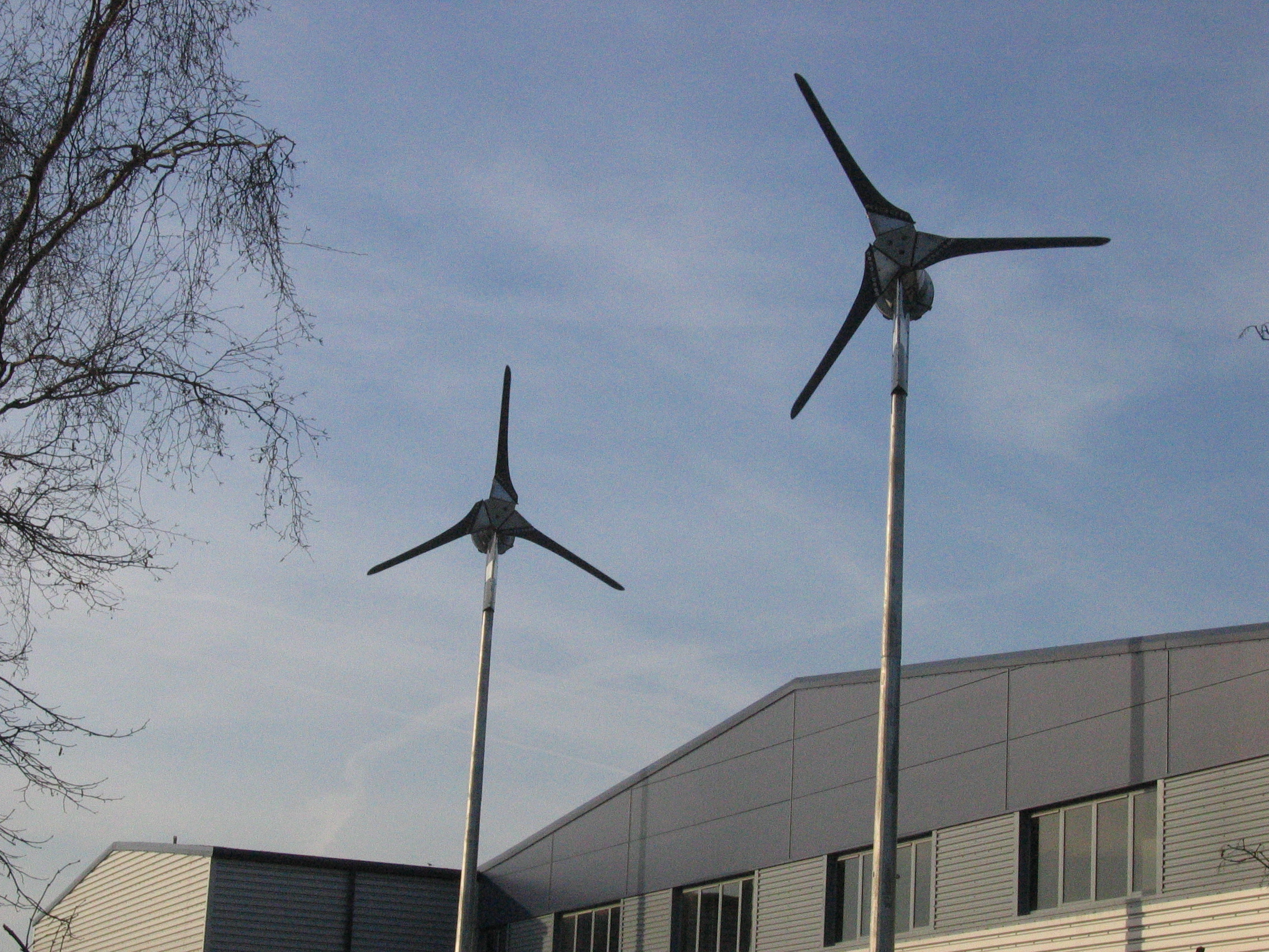 Wind Turbines near Colliers Wood, Merton, London